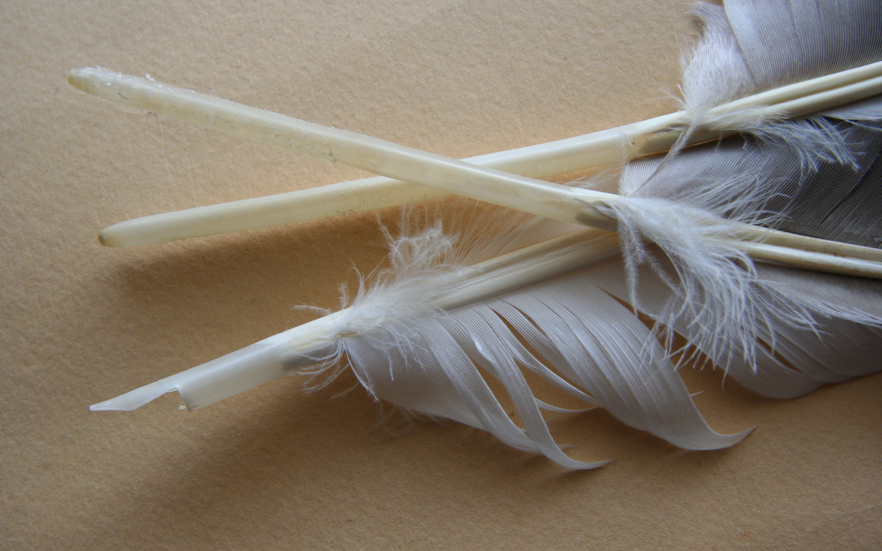 Three goose feathers in stages of being made into writing quills. Top: unmodified. Middle: polished. Bottom: cut and shaped.